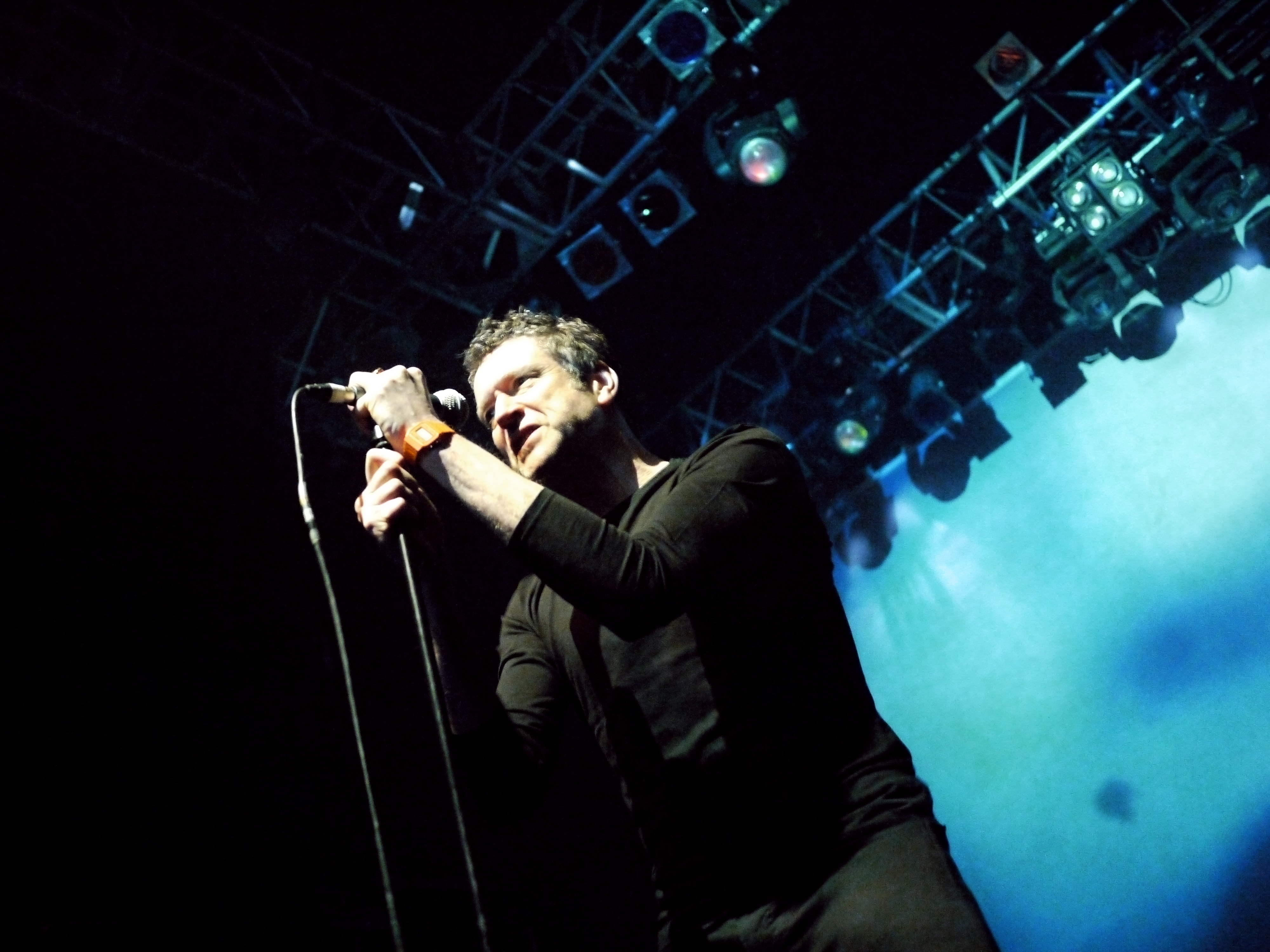 Blancmange at Koko, London on 15/03/2011